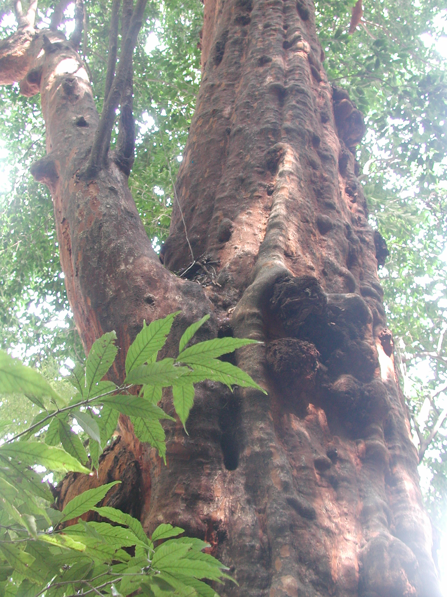 Hayakawa no Biranjyu (Prunus zippeliana in Hayakawa), Japan's natural monument. (Hayakawa, Odawara-shi, Kanagawa)